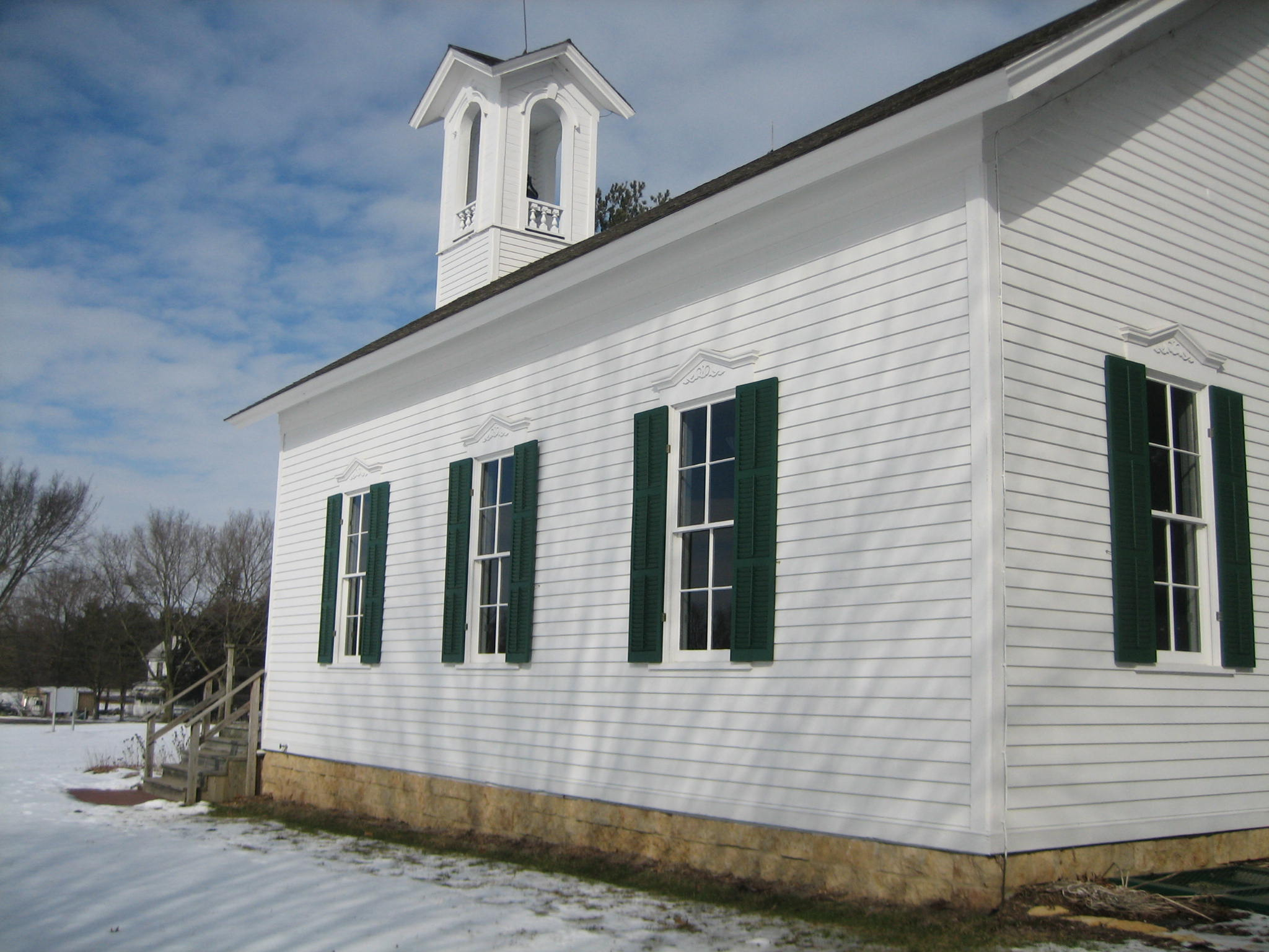 Chana School, Oregon, Illinois. National Register of Historic Places.